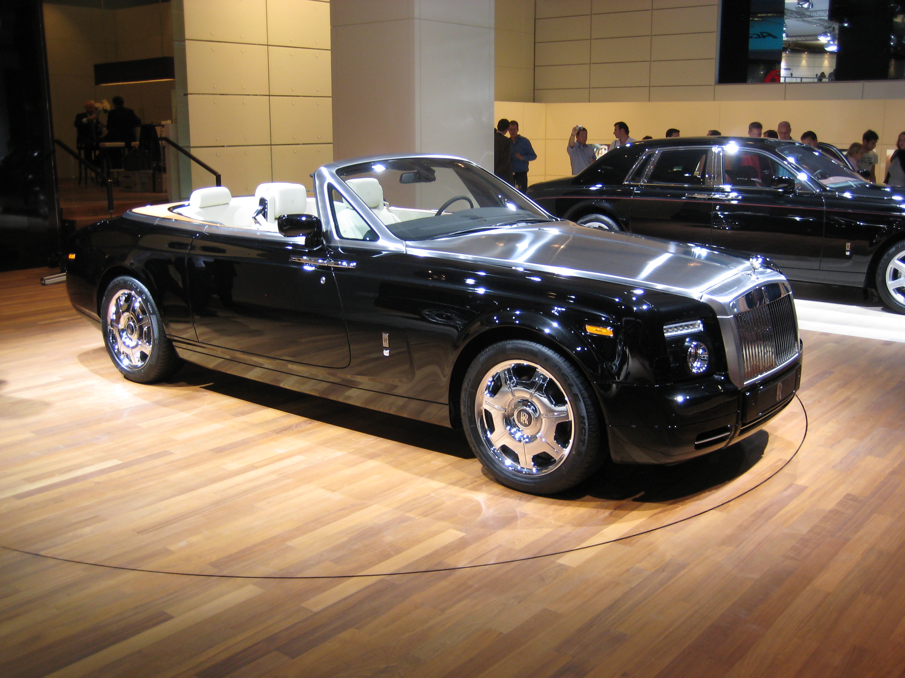 Rolls Royce Drophead Coupe auf der IAA 2007